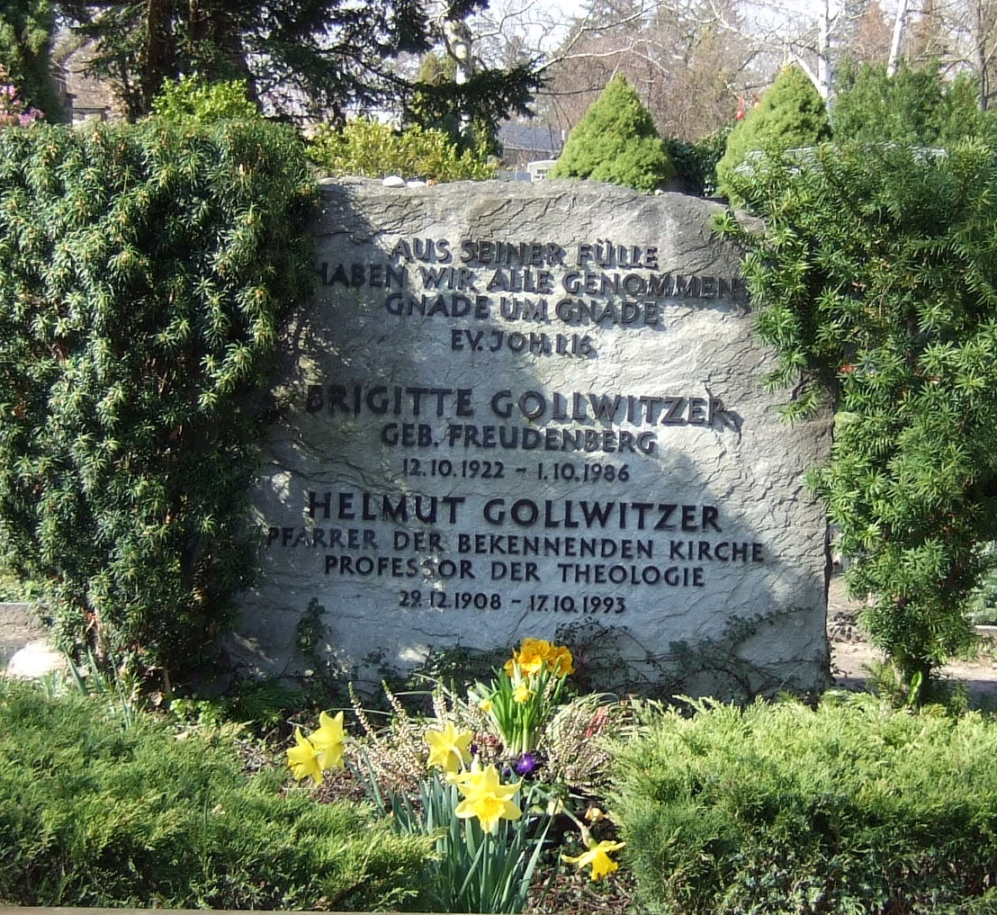 Tomb of Helmut Gollwitzer